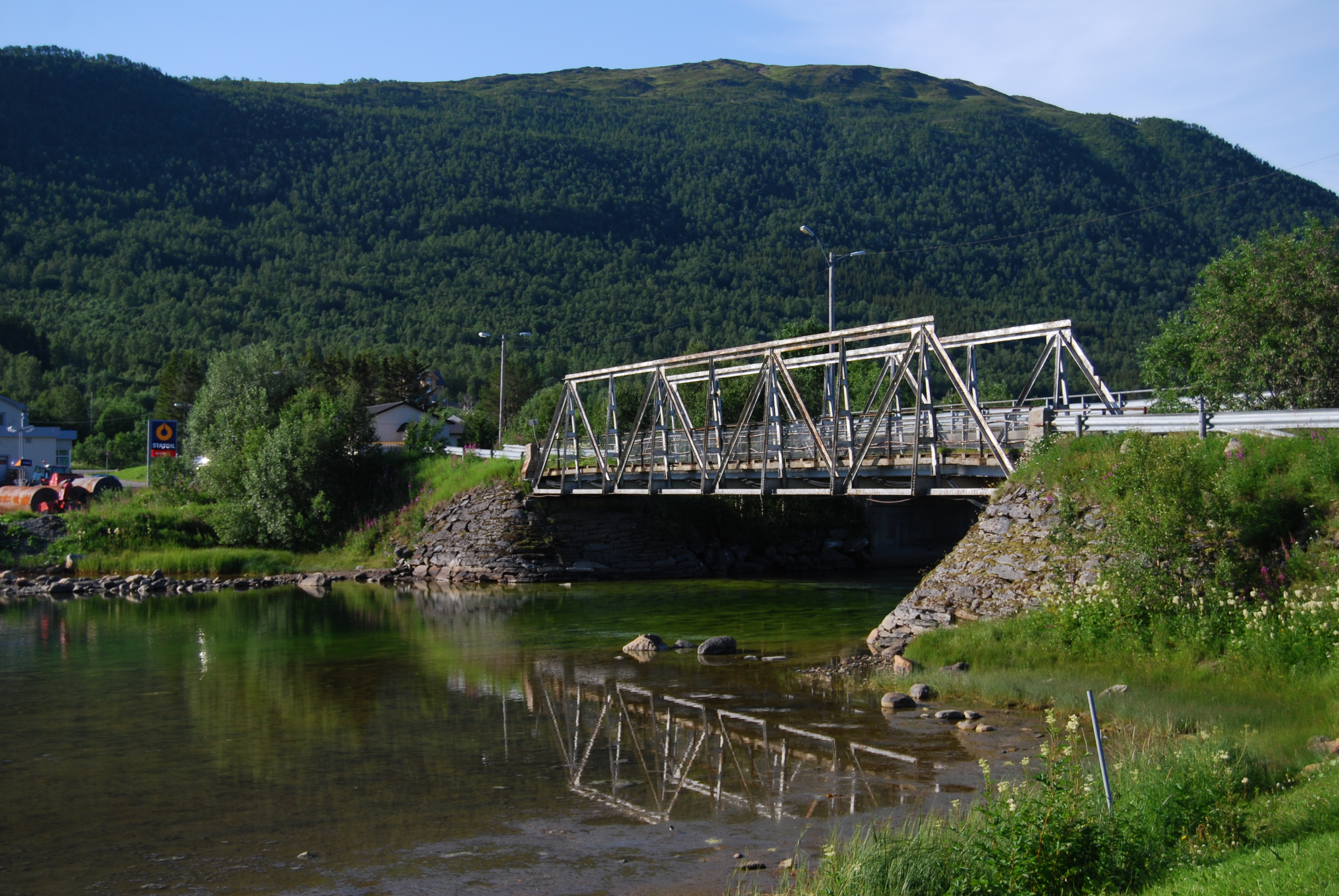 Rossfjordstraumen in Rossfjordvatnet lake, Lenvik, Norway.